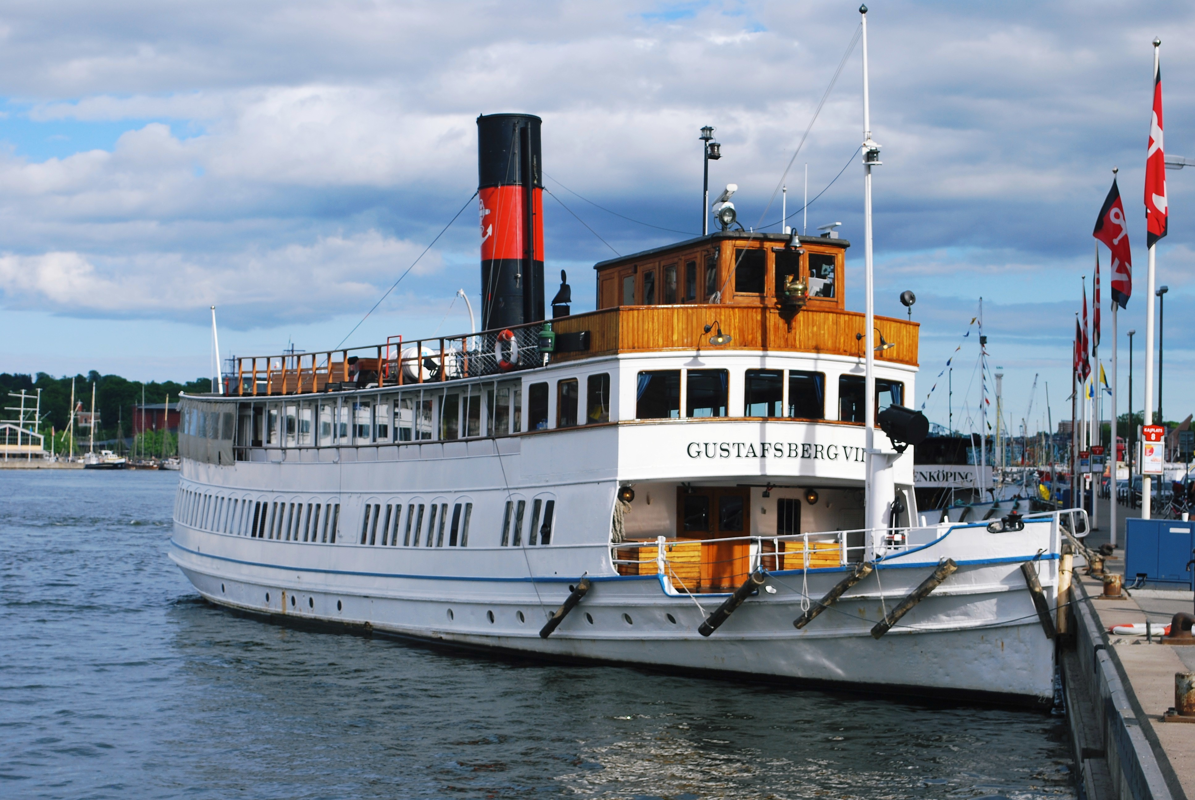 Stockholm steam ferry "Gustafsberg VIII" in the harbour, 6/10.